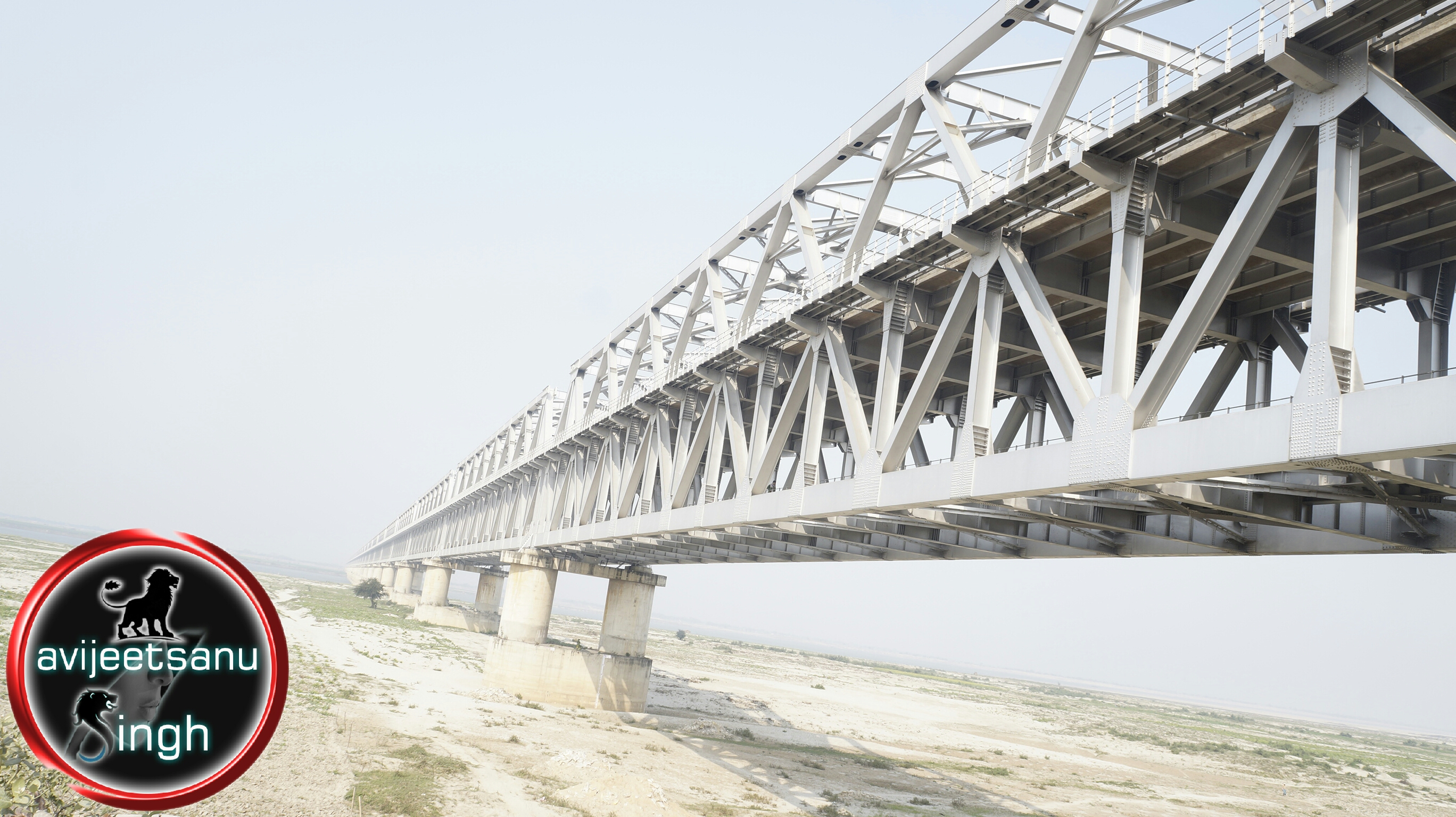 Munger Ganga Bridge 3.692 km log bridge Jamalpur to Khagadiya via Munger